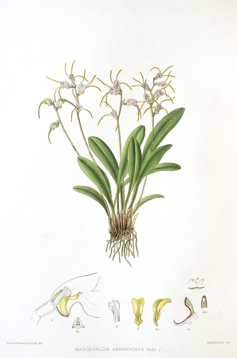 Illustration of Masdevallia abbreviata from Florence H. Woolward: The Genus Masdevallia